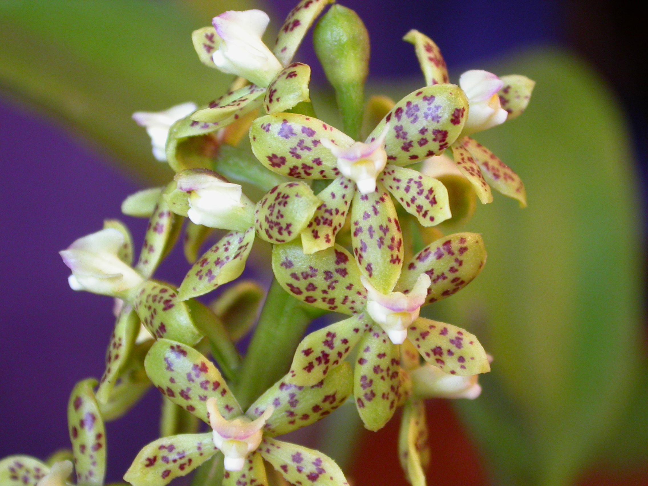 Anacheilium bohnkianum